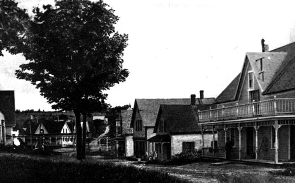 Main street of Harvey Station, New Brunswick, circa 1911.